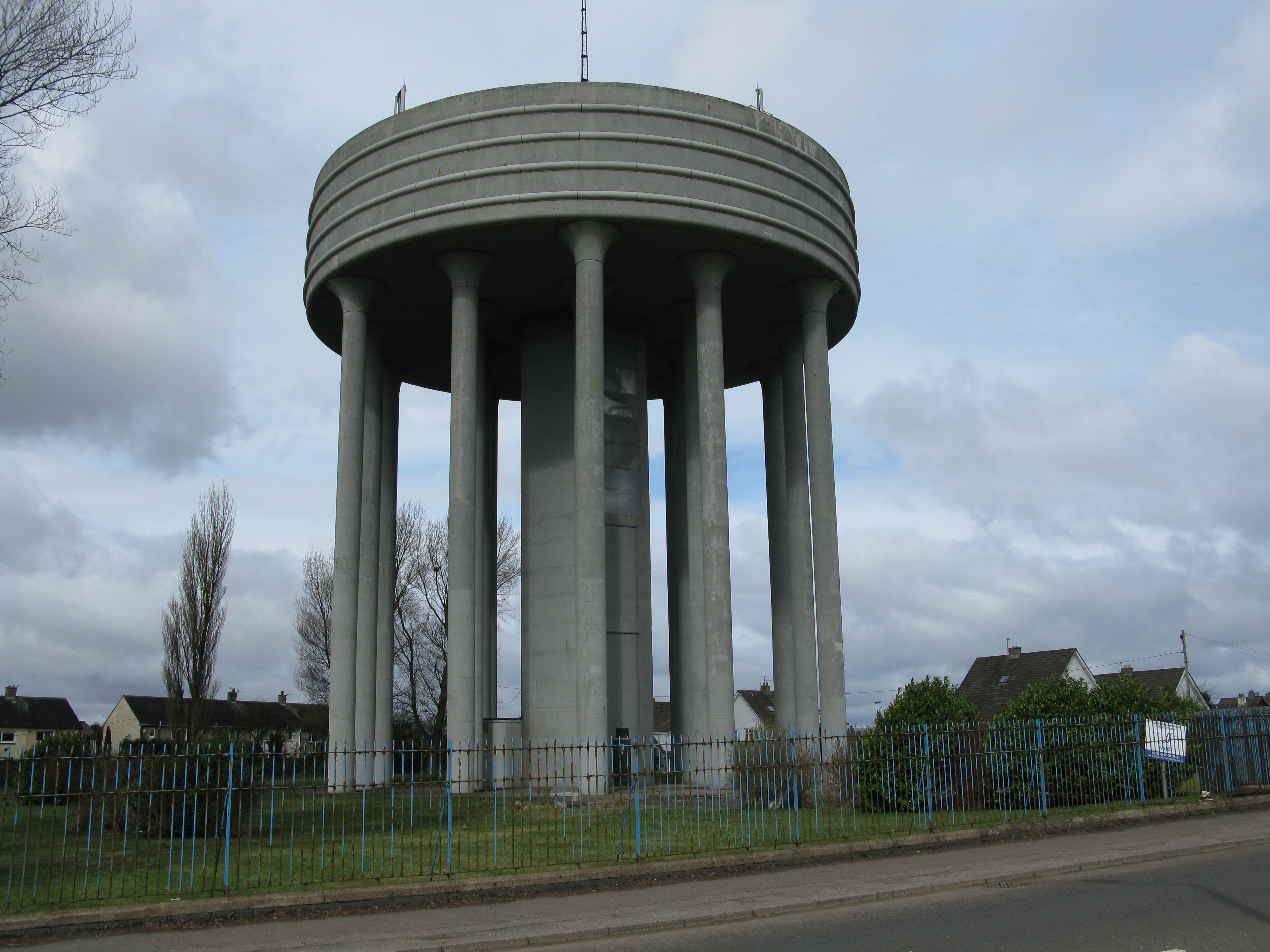 Tannochside Water Tower The water tower on Aitkenhead Road dominates the Tannochside skyline.